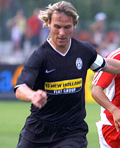 July 2007. FC Juventus summer training ground, Italy. Pavel Nedvěd.